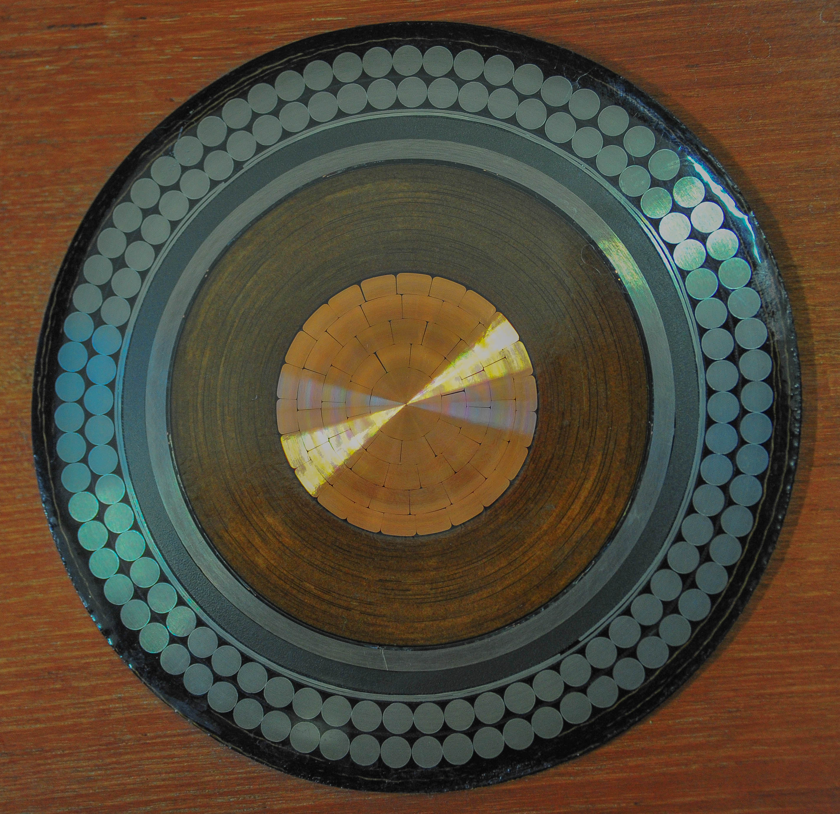 Cross section of submarine cable rated 350 kV, 1430 A HVDC, installed in 1991 on the New Zealand HVDC Inter-island scheme.